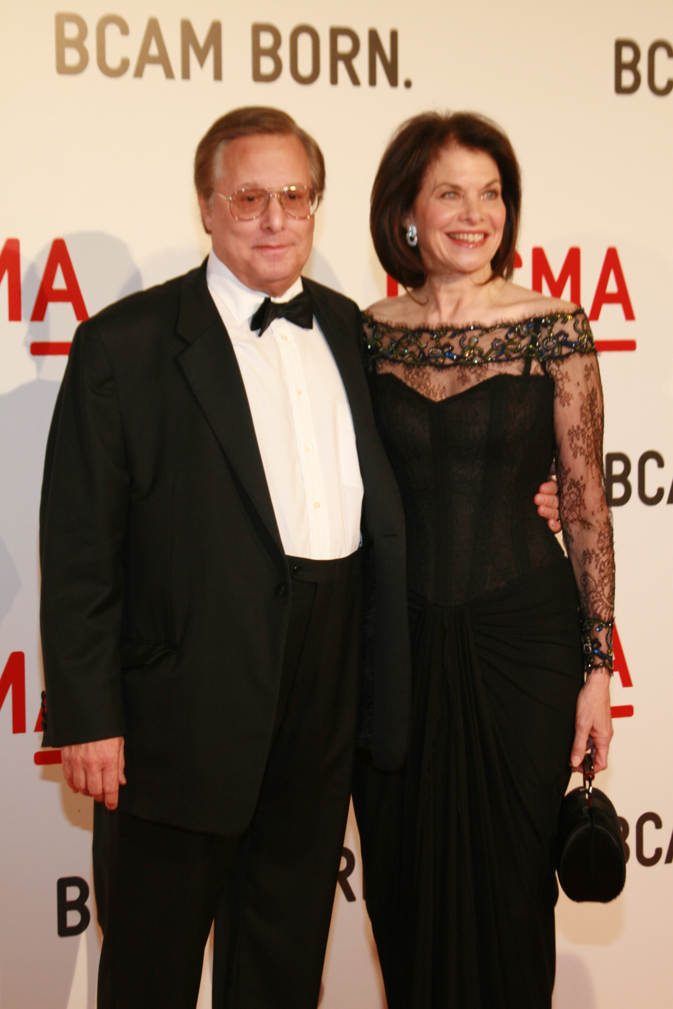 William Friedkin and Sherry Lansing arrive at LACMA’s Gala Opening of the Broad Contemporary Art Museum on February 9, 2008 in Los Angeles, CA.